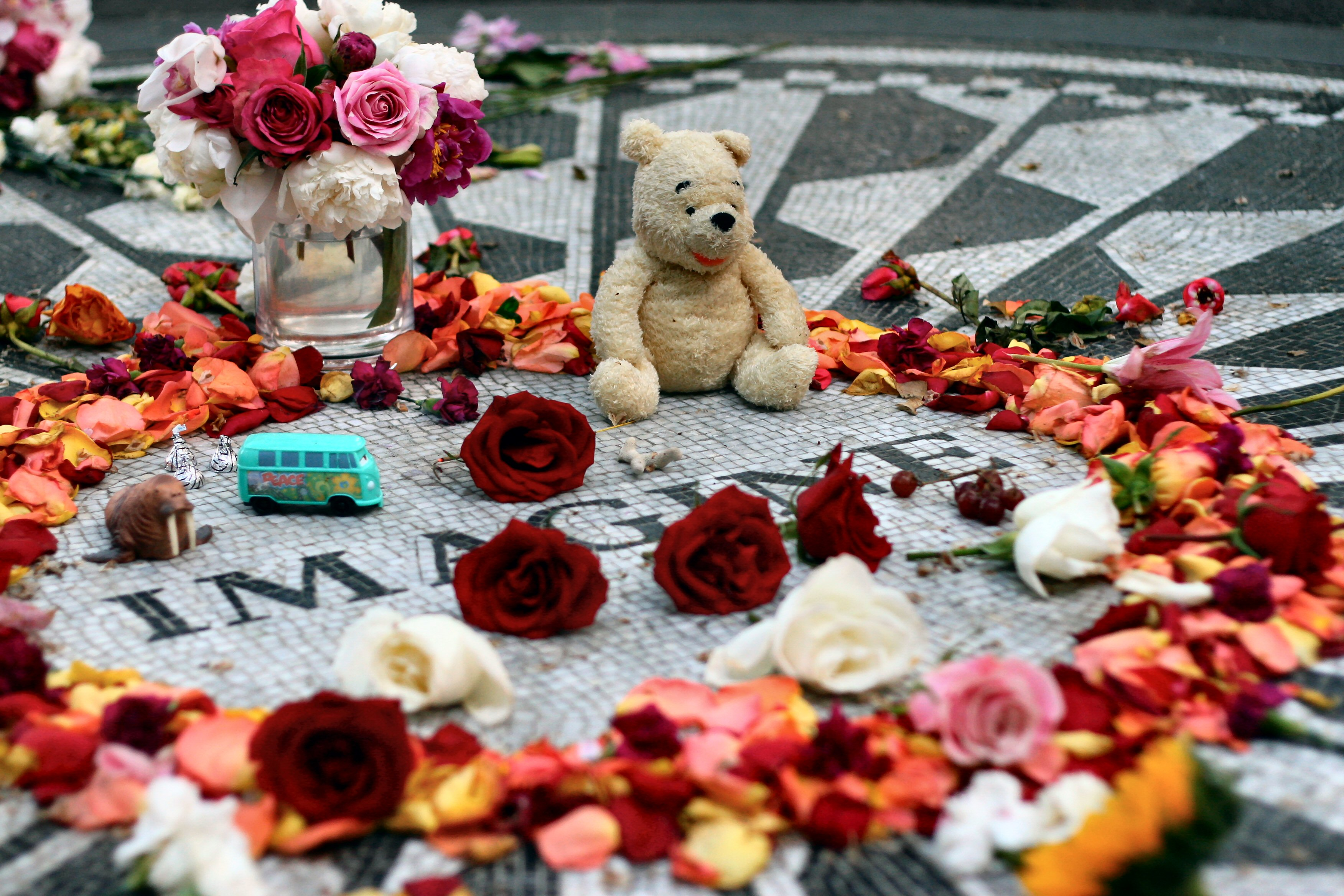 Strawberry Fields Memoril to John Lennon in Central Park, New York, NY, USA